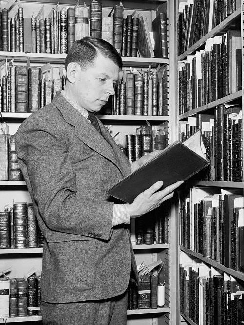 Cropped picture of Dr. Giles E. Dawson, reference librarian, inspecting $2,500,000 in rare books acquired for Folger Library. Washington, D.C., May 14, 1938.